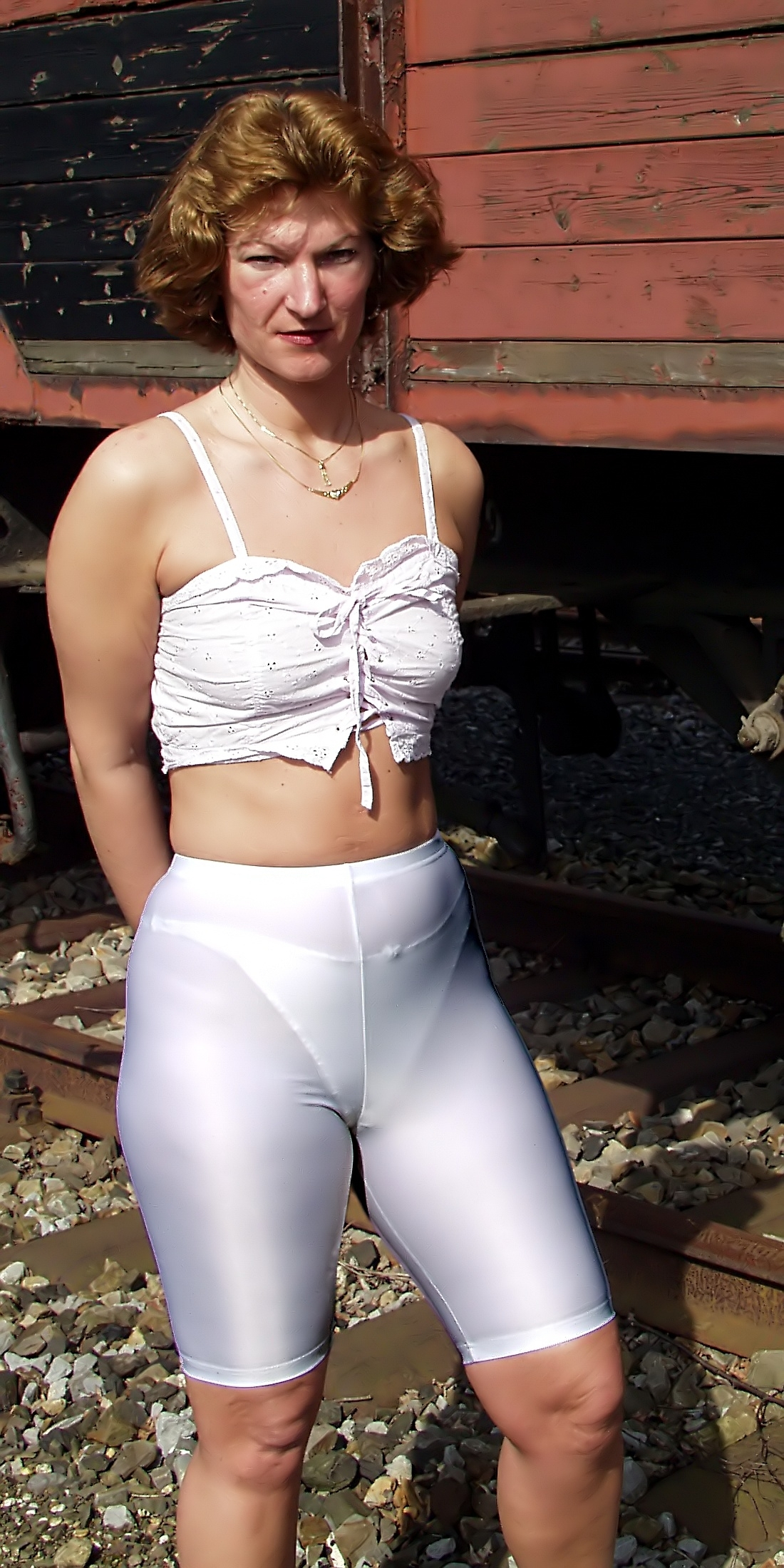 Photomodel Ina in white Leggings